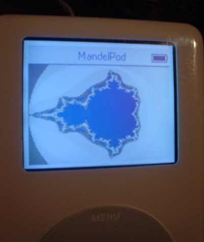 The MandelPod program running on iPod Linux. Photo taken by User:Palthrow. Author releases all rights.